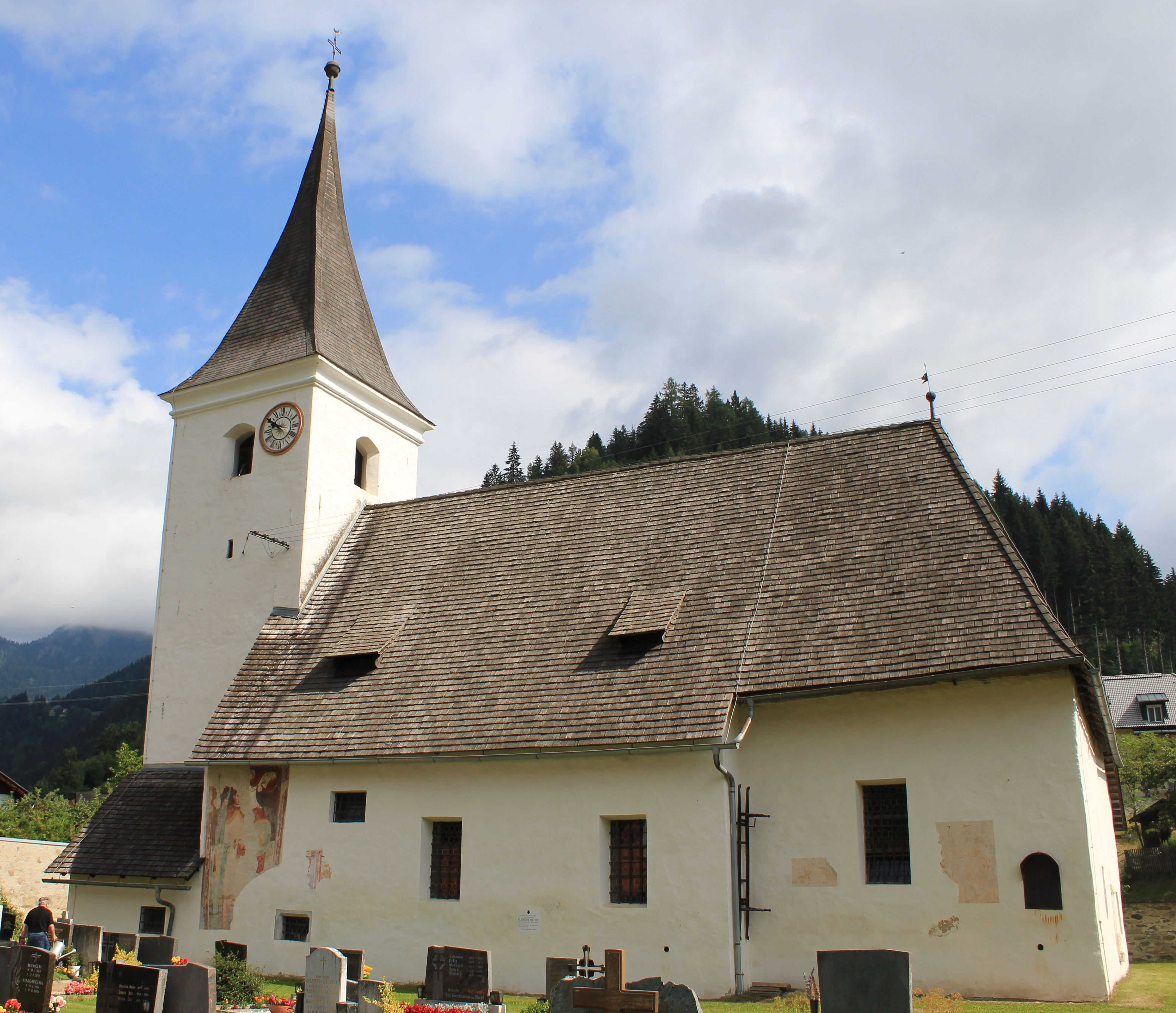 Parish church Saint Godehard in Ingolsthal in the community Friesach